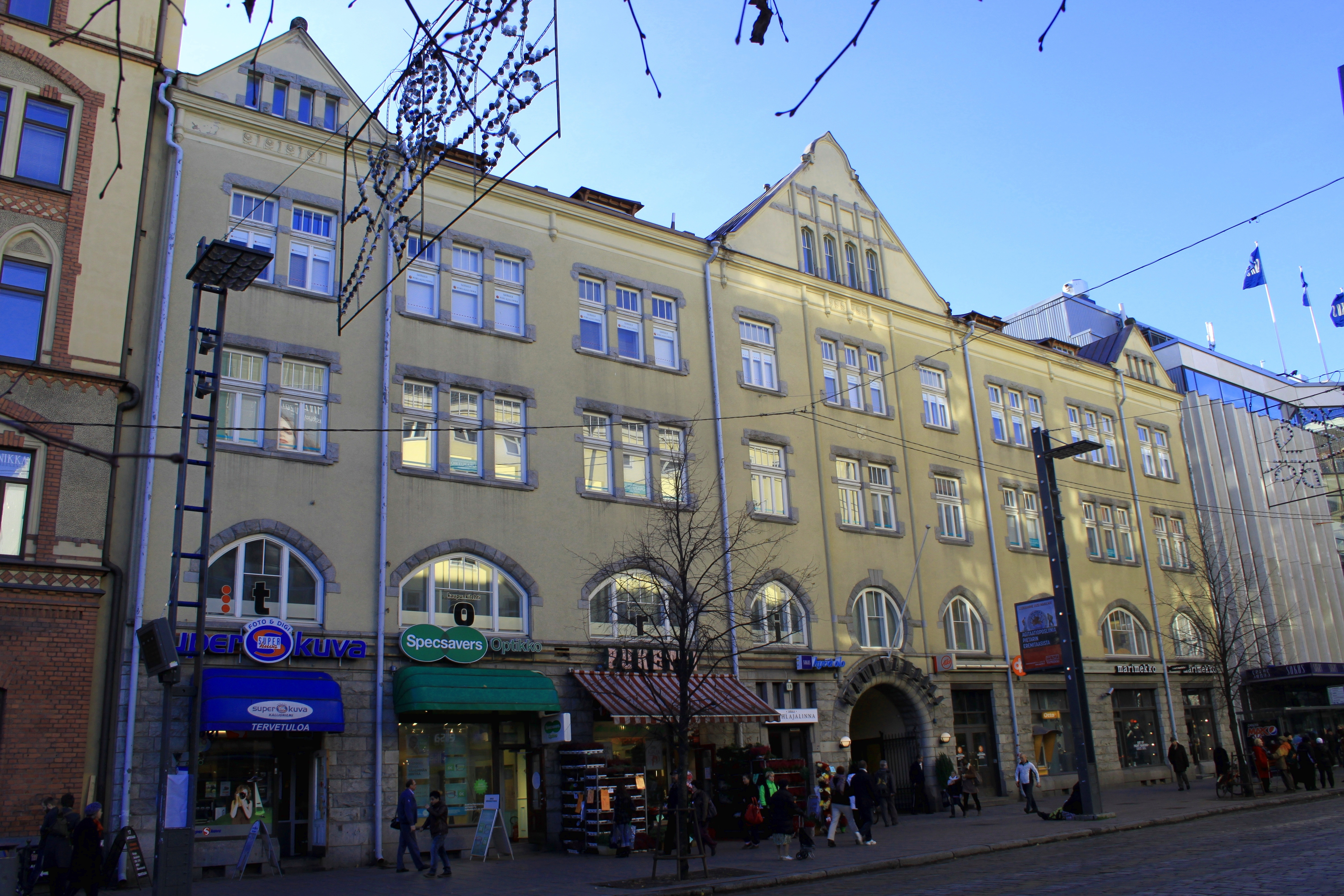 A building part of the market hall complex on Hämeenkatu, Tampere, FInland. Architect: Hjalmar Åberg. Built 1901